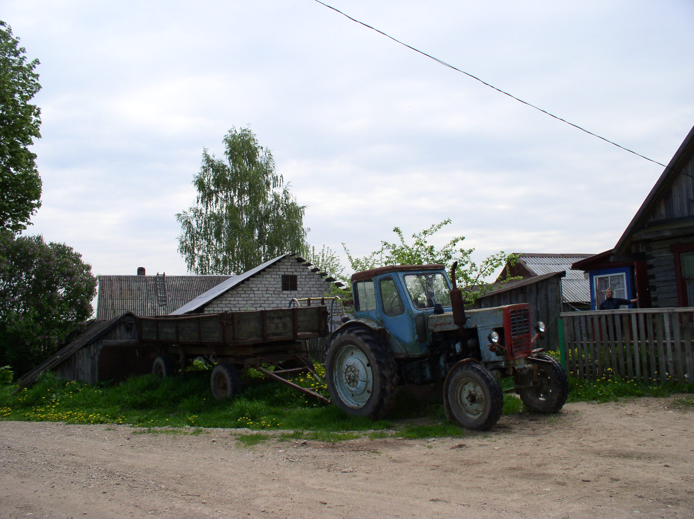 Harbaty, Belarus.